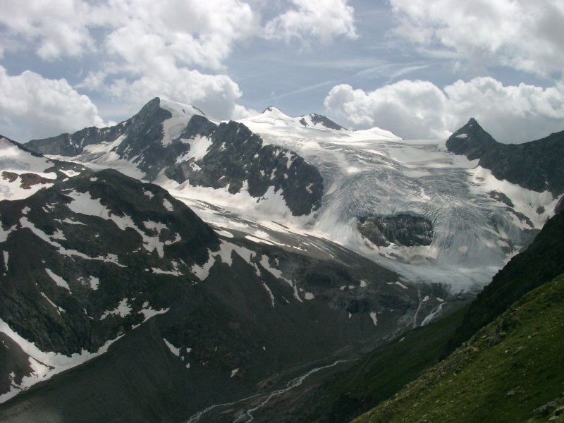 Sulzenauferner. mountains left to right: Wilder Pfaff, zuckerhütl, Pfaffenschneide, Aperer Pfaff